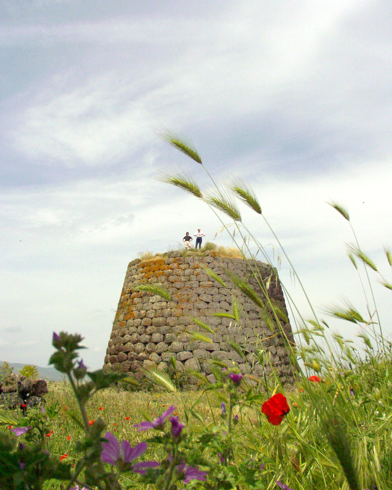 Nuraghe in Sardinia